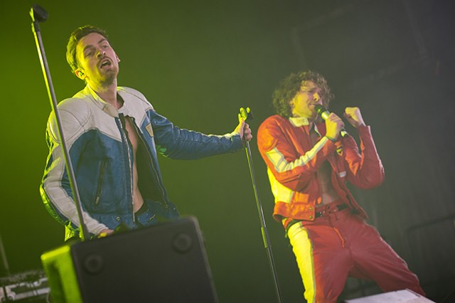 Sirkus Eliassen in concert at by:Larm 2013